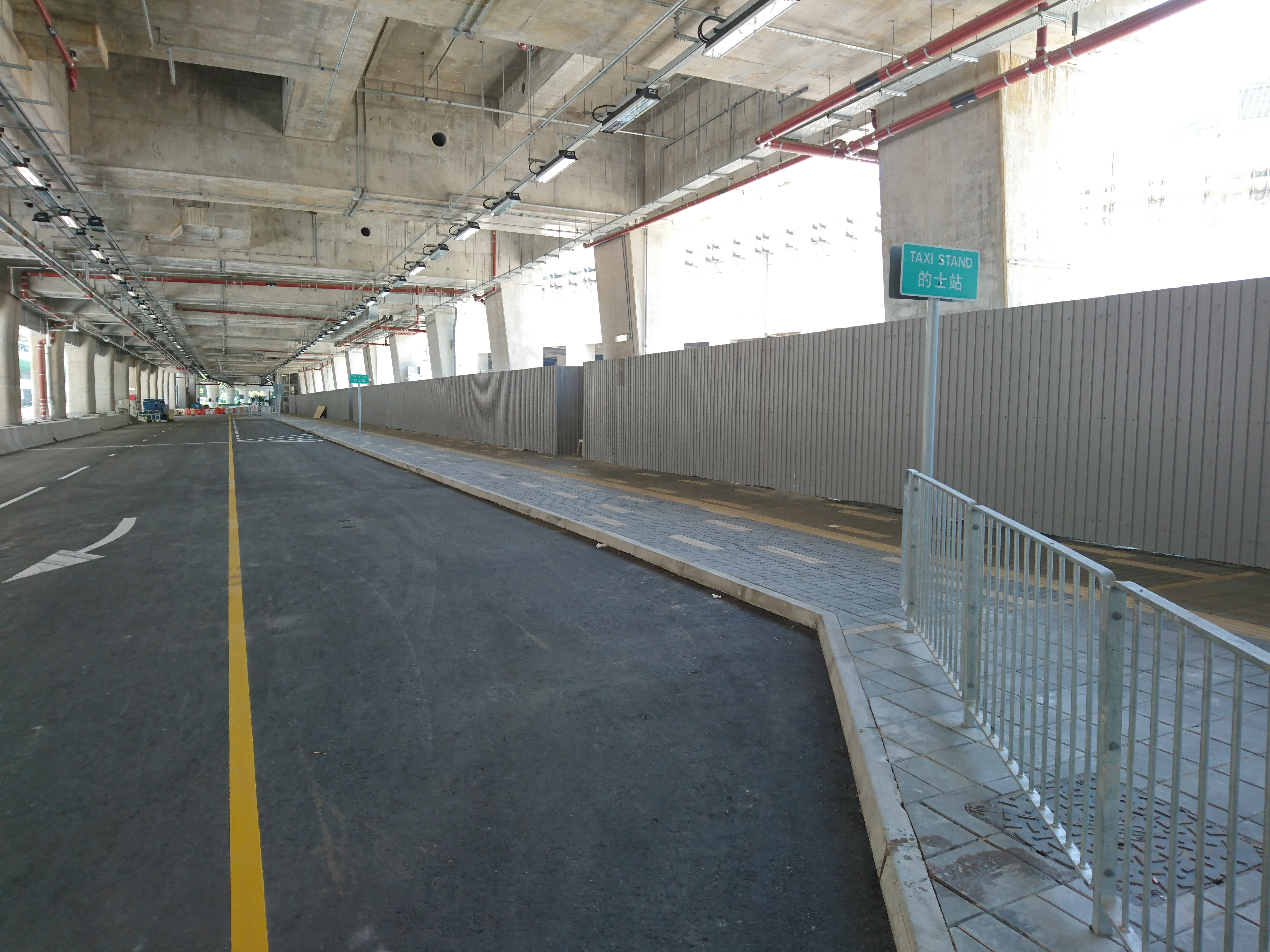 Wong Chuk Hang Station Taxi Stand in May 2016